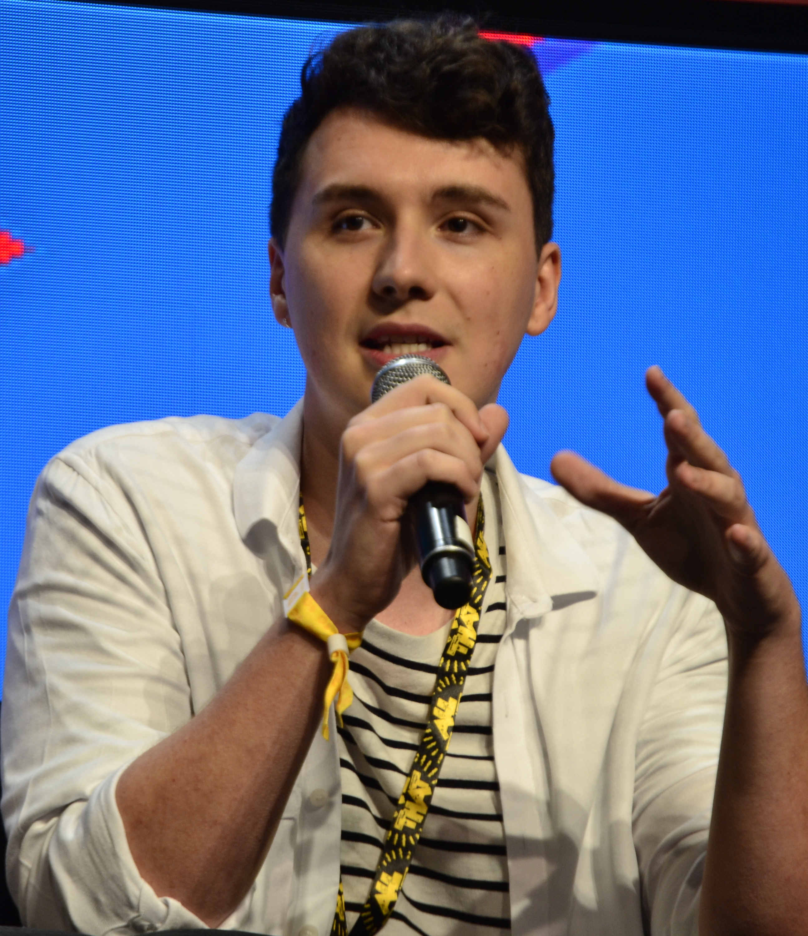 Daniel Howell on a mental health panel at VidCon 2019 (cropped)